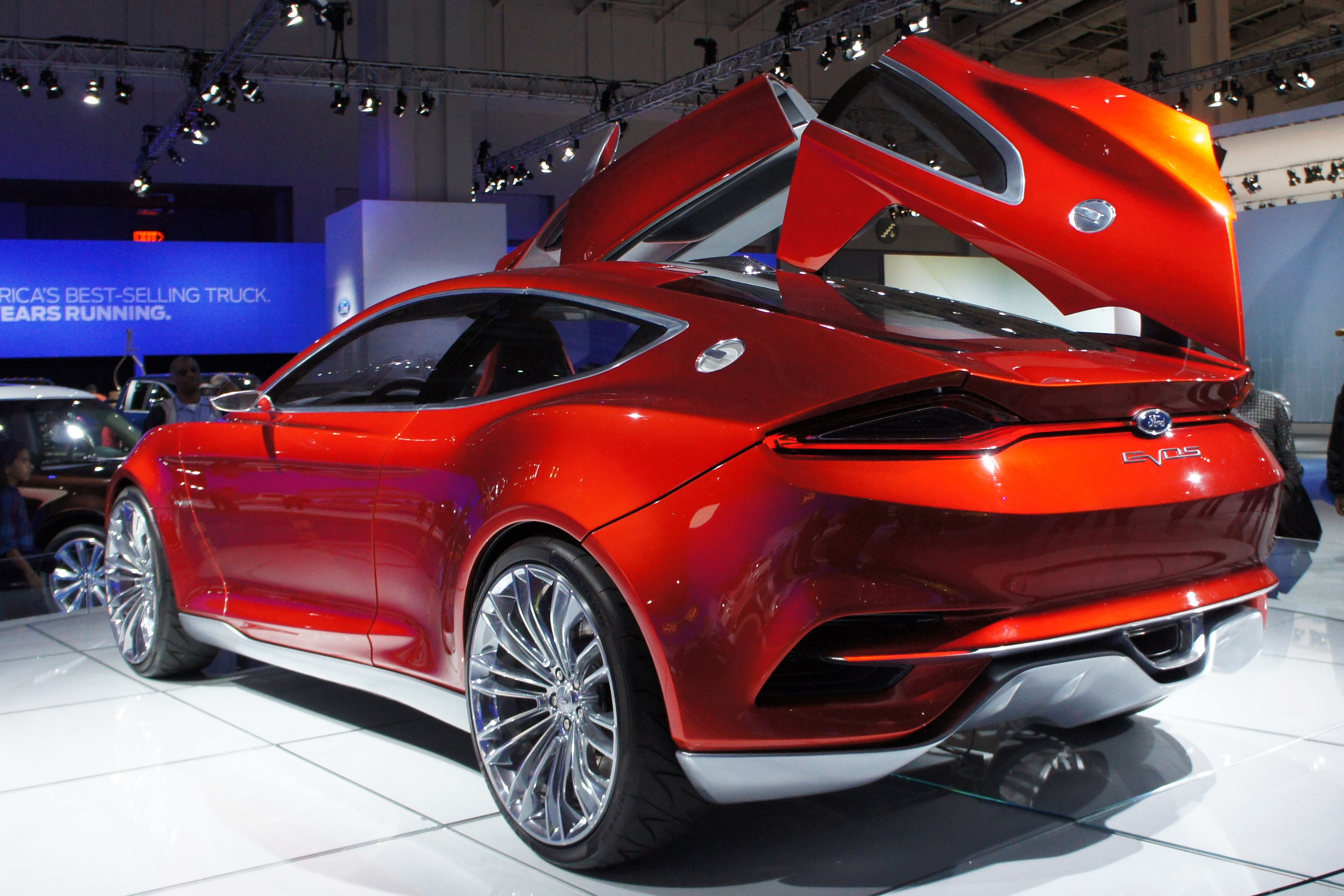 Ford Evos Plug-in Hybrid at the 2012 Washington Auto Show (D.C.)